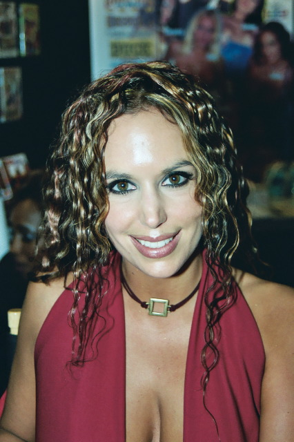 Felicia Fox at AEE 2003